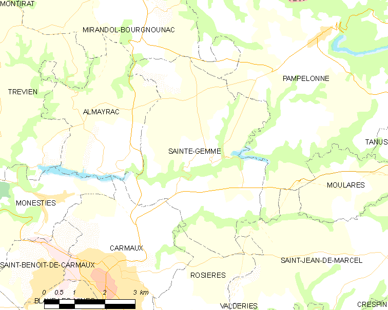 Map of French municipality Sainte-Gemme